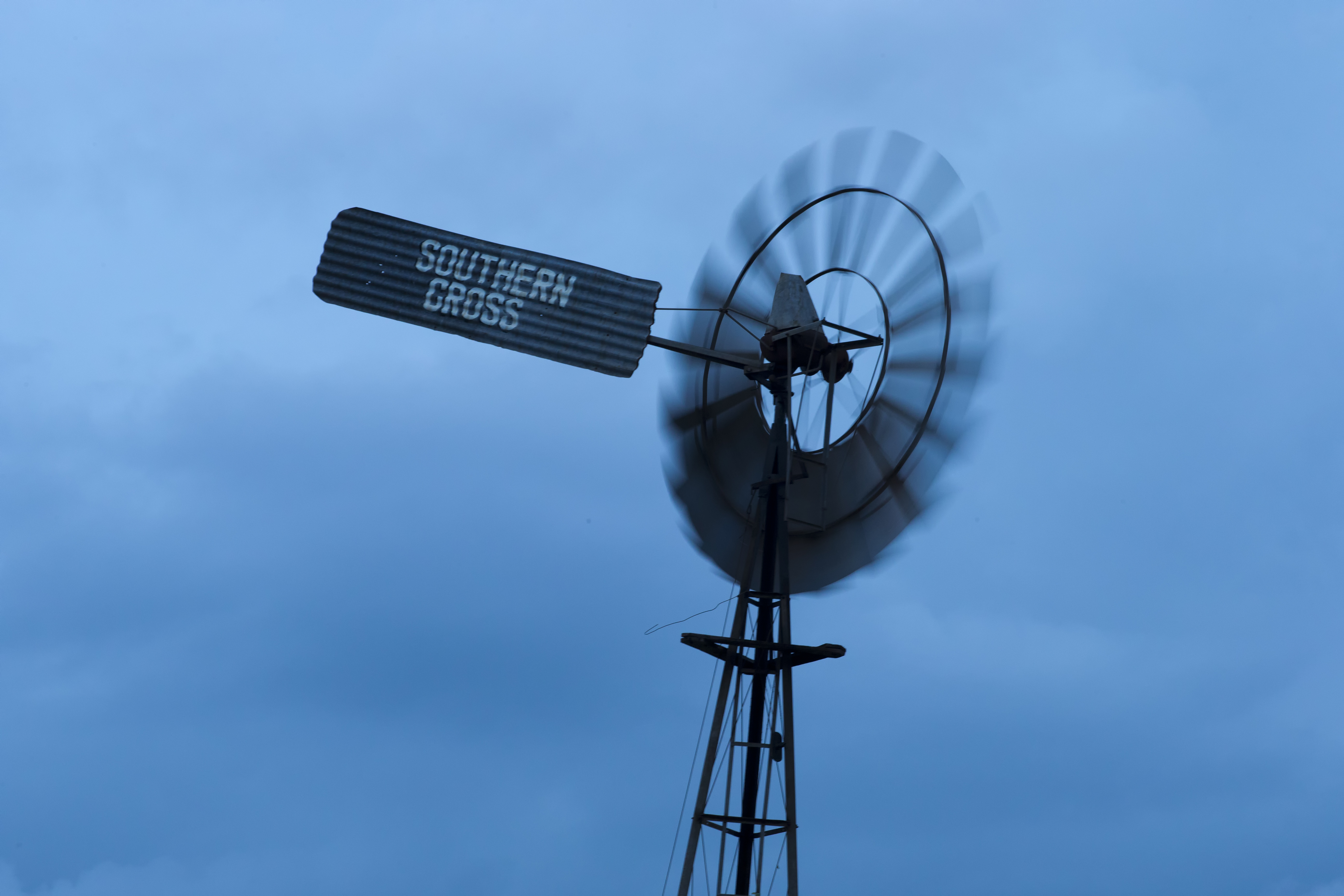 Wet season in North Queensland. Walkamin is in for a storm.